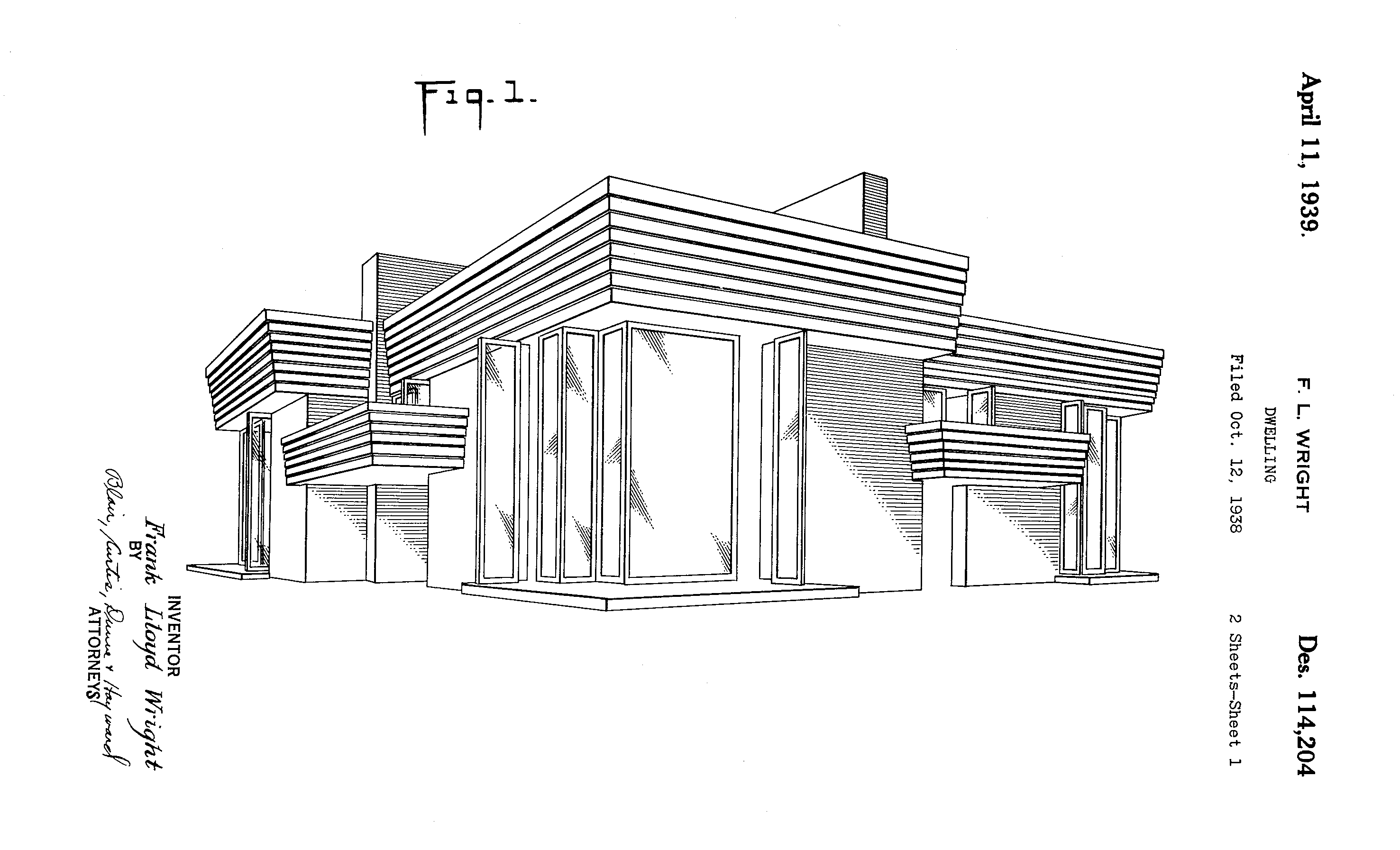 This is the perspective view of one quarter of a Suntop quadruplex, figure 1 of U.S. Design Patent 114,204 filed Oct.11 1938 by Frank Lloyd Wright.